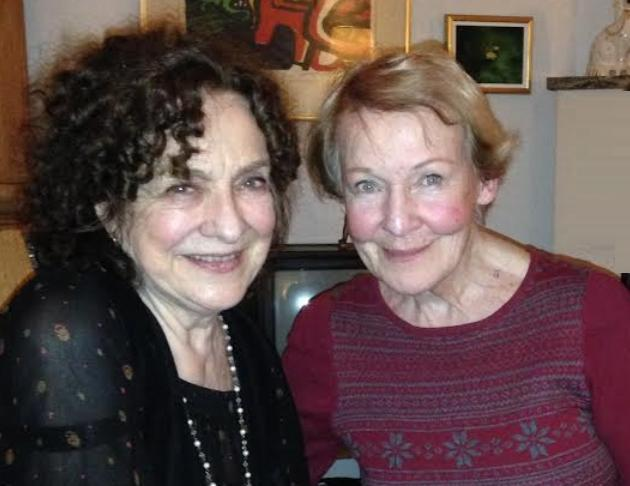 Gunvor Pontén and Margaretha Byström at Pontén's 86th birthday partyPlace: Götgatan, Stockholm, Sweden